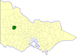 Location of the Shire of Dunmunkle within Victoria.